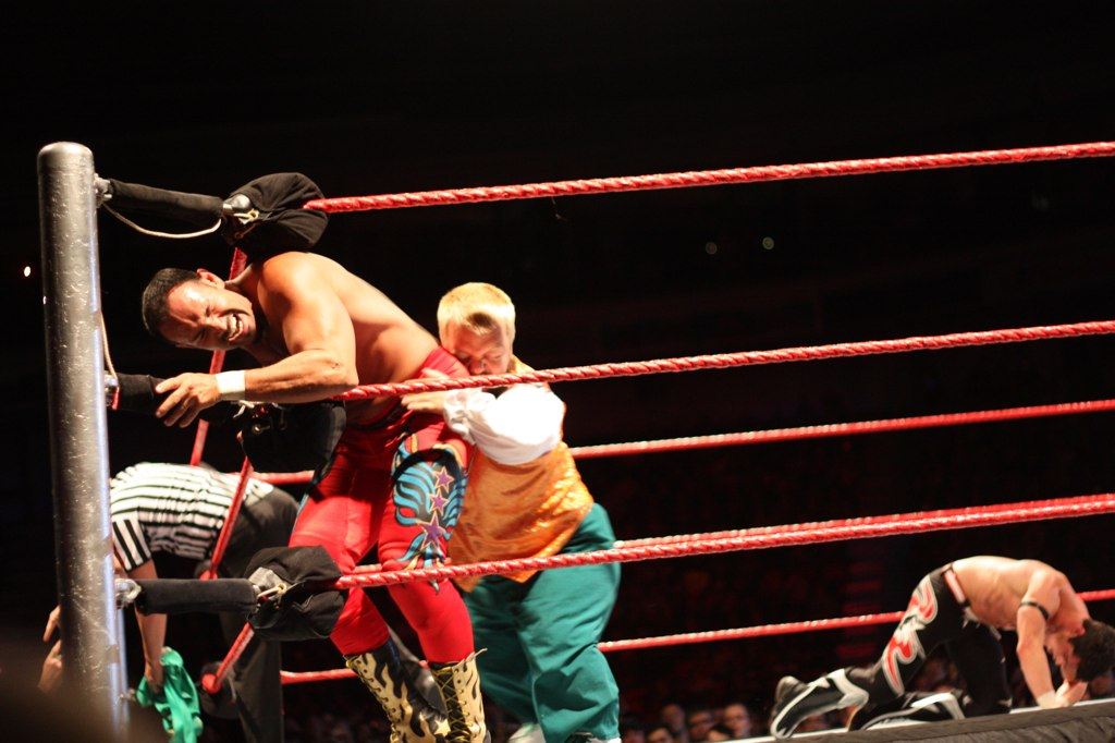 Hornswoggle interrupts Chavo Guerrero's match with Evan Bourne at a WWE House show in Halifax, Nova Scotia, Canada.